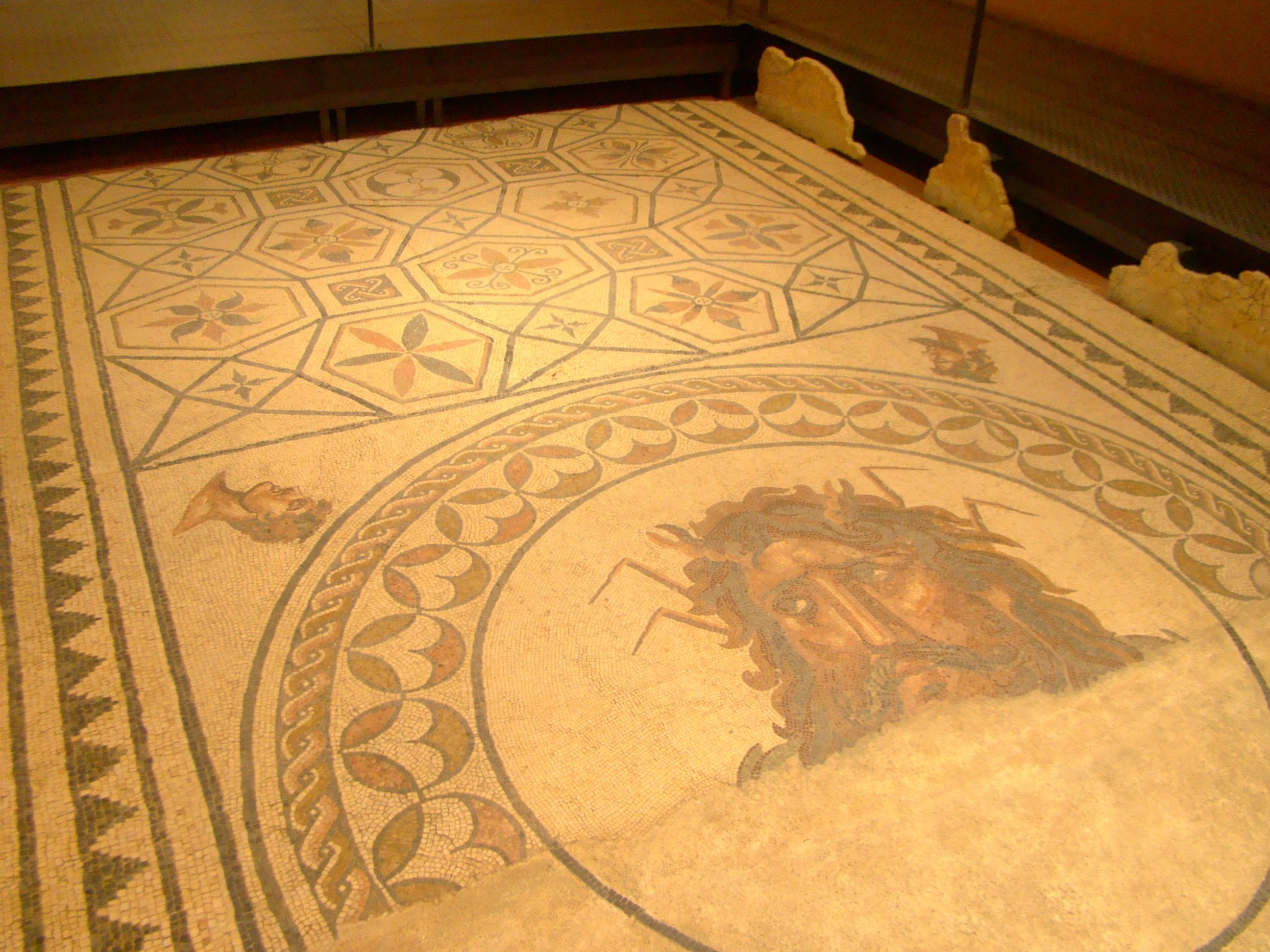 Roman mosaic of the god Oceanus, part of the ancient city of Ossónoba, modern town of Faro, in Portugal.